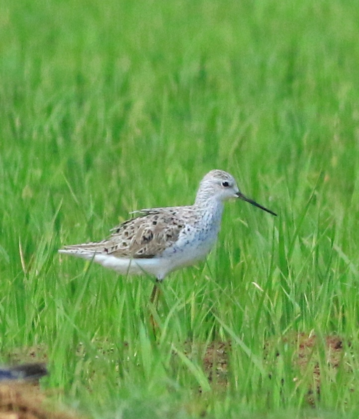 marsh sandpiper photo from Koottanad Palakkad